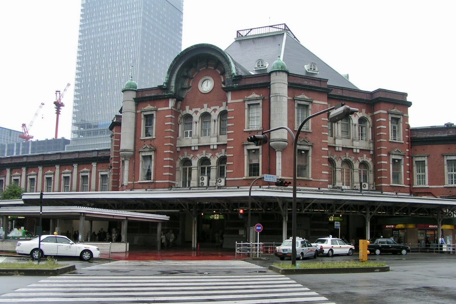 Tokyo Stn. Marunouchi Side(2007)